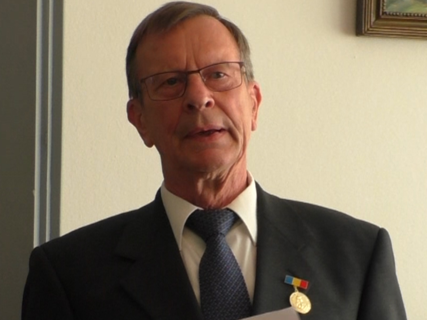 Klaus Bochmann, born 1939 in Dresden, was professor of Romance linguistics at the University of Leipzig until retirement. He studied Romance Studies in Leipzig and Bucharest, taught at the Universities of Leipzig and Halle-Wittenberg, and was co-founder and director of the France Center and founder of the Québec Archive at the University of Leipzig. He has been a member of the Saxon Academy of Sciences in Leipzig since 2002, whose linguistics commission he heads, and is currently Chairman of the Moldova Institute Leipzig eV The University of Alba Iulia (Romania) and the Moldavian State University Chișinău awarded him an honorary doctorate. Klaus Bochmann published approx. 30 book titles and 250 scientific essays, especially on French, Italian and Romanian language history and sociolinguistics (language policy, minority languages ​​and identity research). Photo: Lina Grâu, The pictures were taken at the Embassy of the Republic of Moldova in Berlin on July 3, 2019